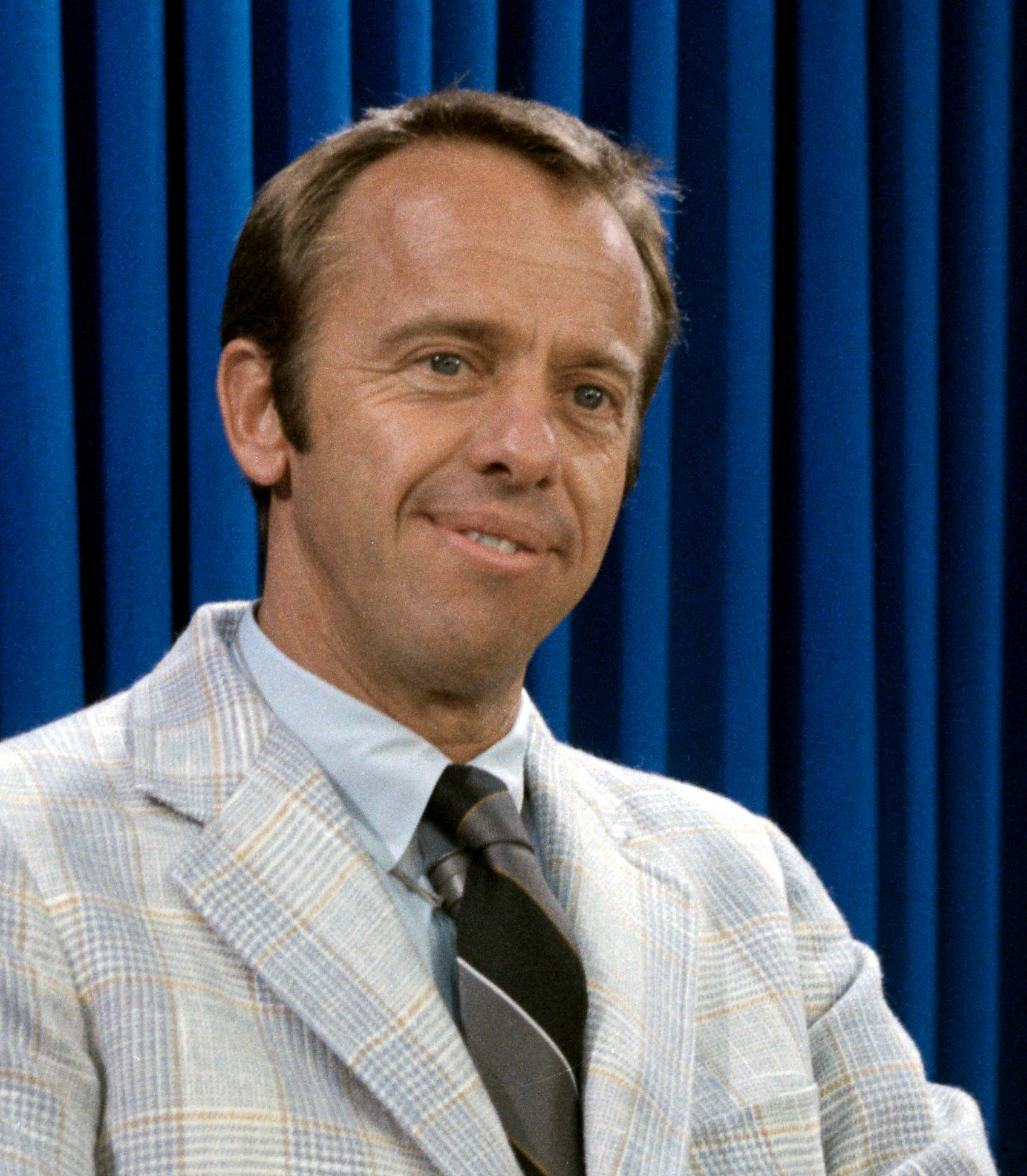 Astronaut Alan B. Shepard Jr., commander of the Apollo 14 lunar landing mission (cropped). Image ID:S70-45232